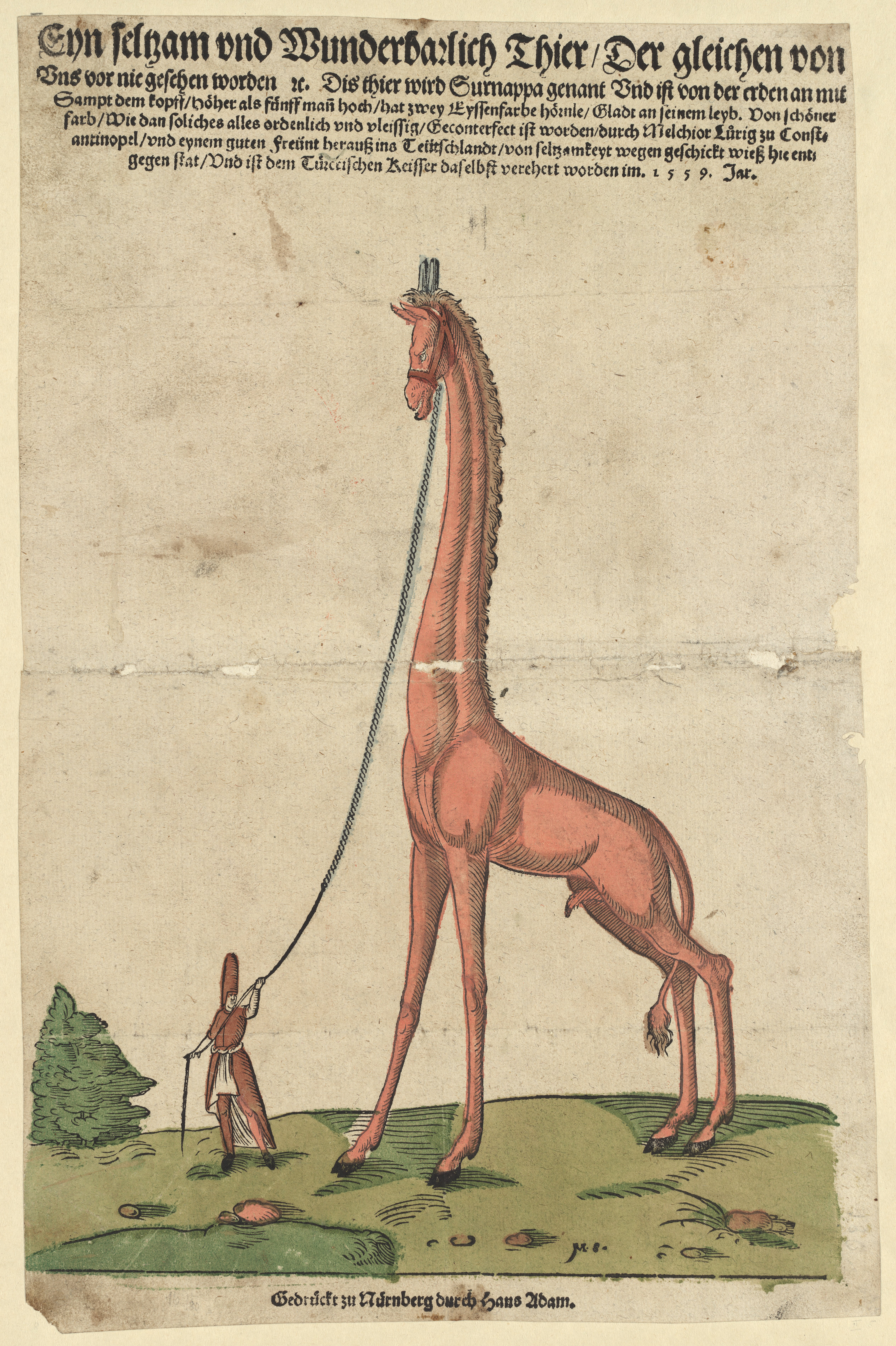 Giraffe, printed by Hans Adam (Nuremberg), based on an original drawing by Melchior Lürig who had seen the animal in Constantinople in 1559.